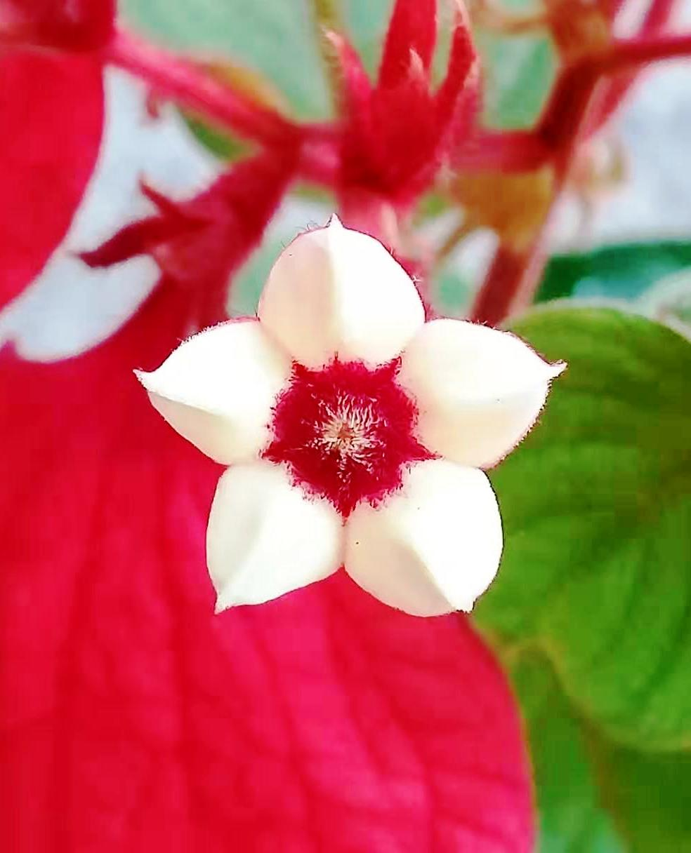 Flower. Taichung, Taiwan.